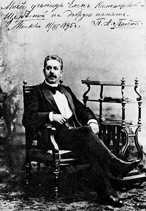 Russian pianist and composer Pavel Pabst (1854—1897). Signed to his pupil, pianist Elena Beckman-Schcherbina, in 1895.